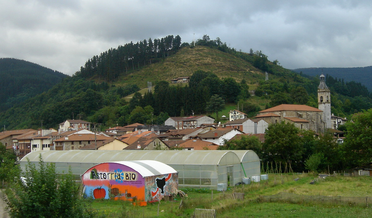 Areatza (Biscay, Basque Country, Spain)